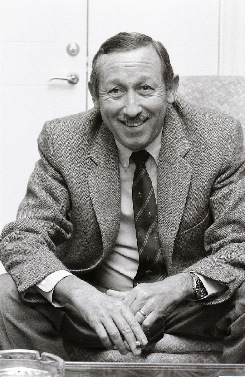 Roy E. Disney in Sweden to promote "The Little Mermaid"